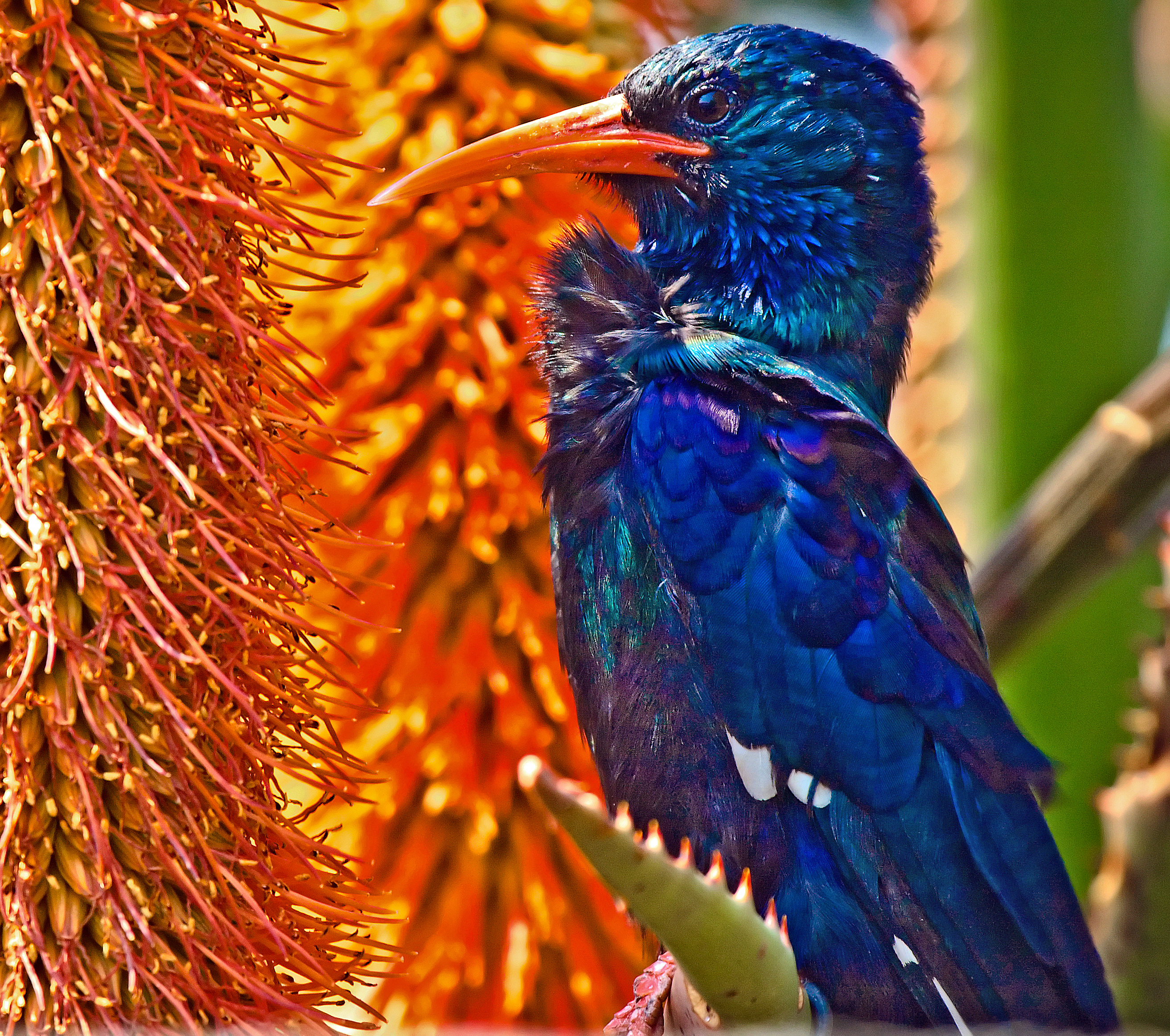 Green Woodhoopoe Phoeniculus purpureus